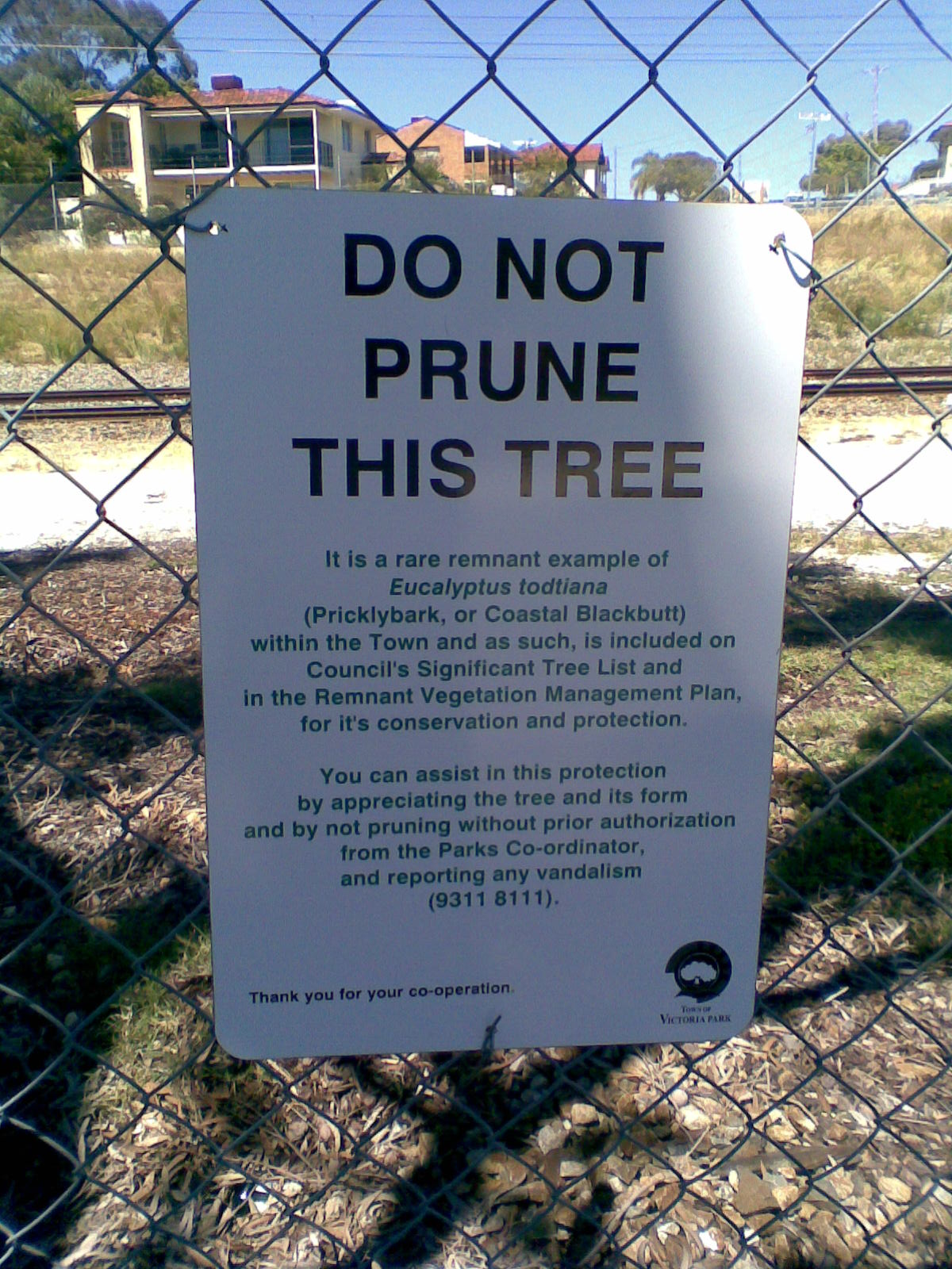 A conservation sign in Victoria Park, Western Australia related to Image:Eucalyptus todtiana.jpg